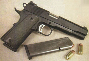 A Gun Crafter Industries Model No. 1 .50 GI Handgun with a spare magazine, and two .50 GI rounds.